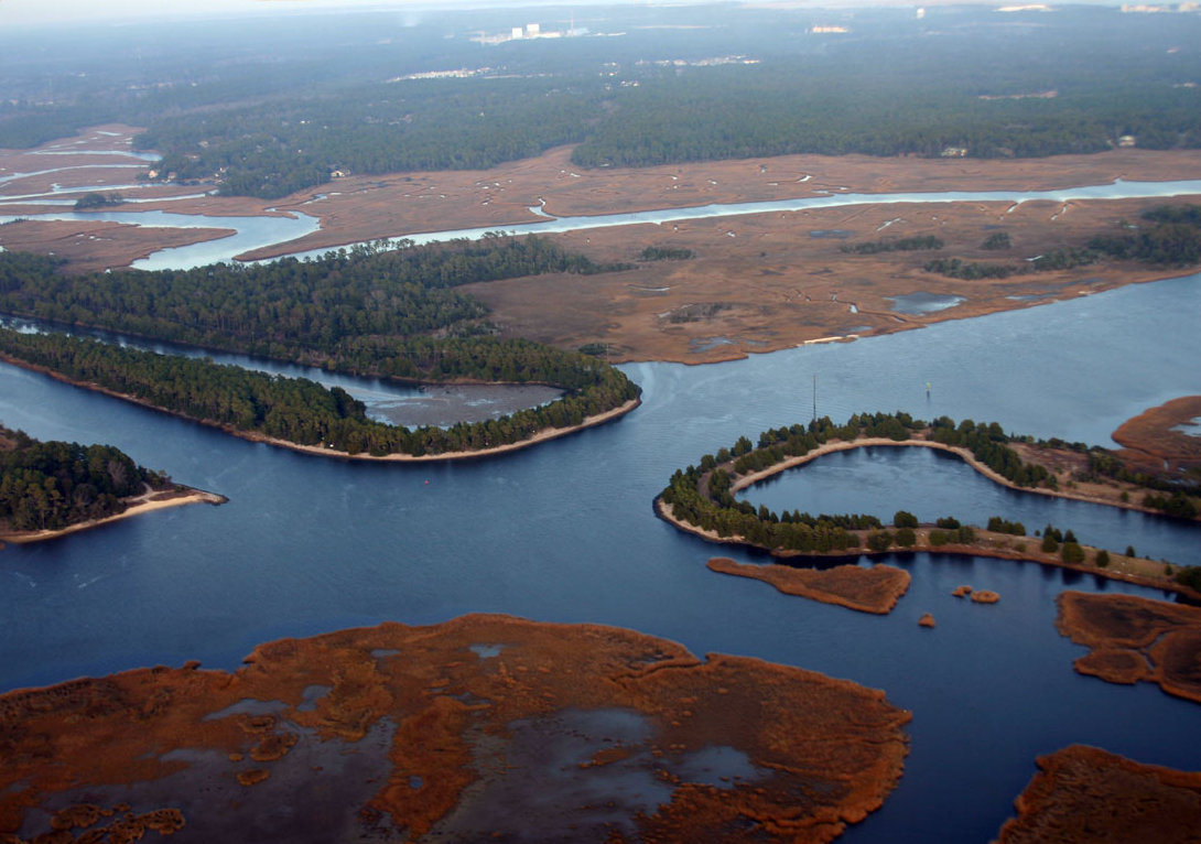 The cooling water discharge canal of the Brunswick Nuclear Plant at the point where it passes under the Intra-Coastal Waterway. The Brunswick Nuclear Plant can be seen in the background at the top center of the picture.